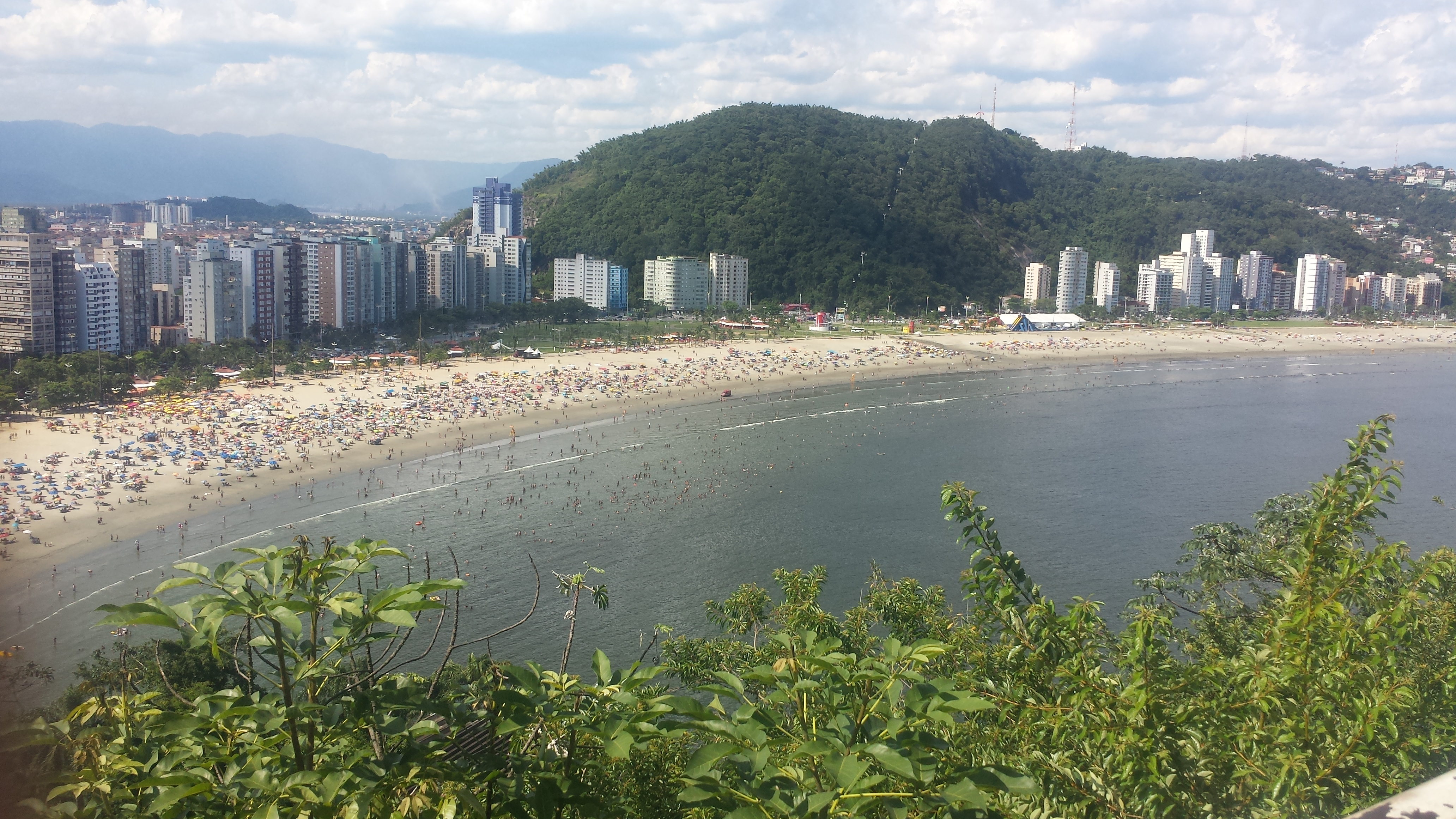 Picture taken from above the monument 500 years of Brazil in Porchat Island ,St. Vincent , Sao Paulo, Brazil.